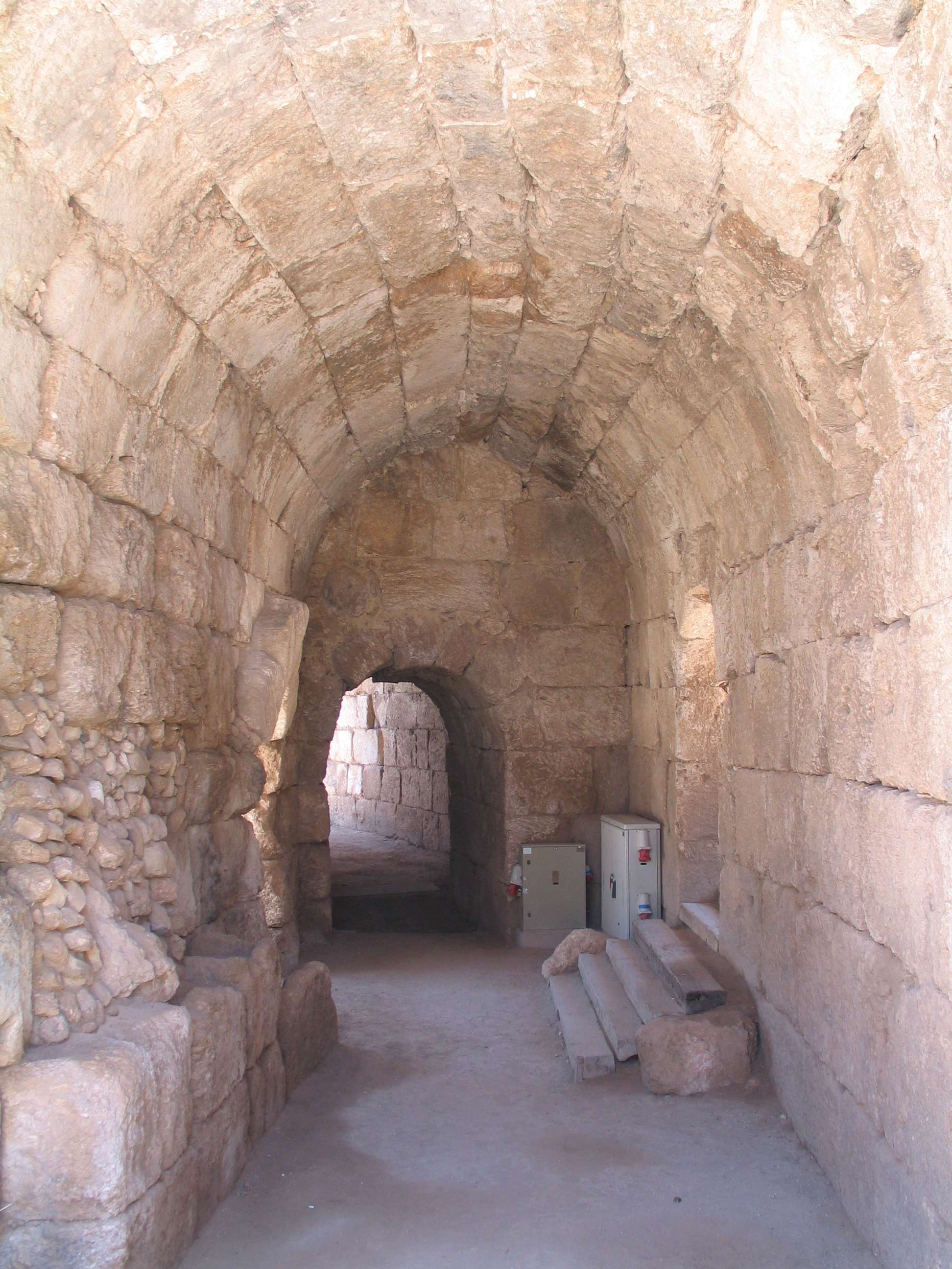 Roman amphitheater, Beyt Govrin, Israel.